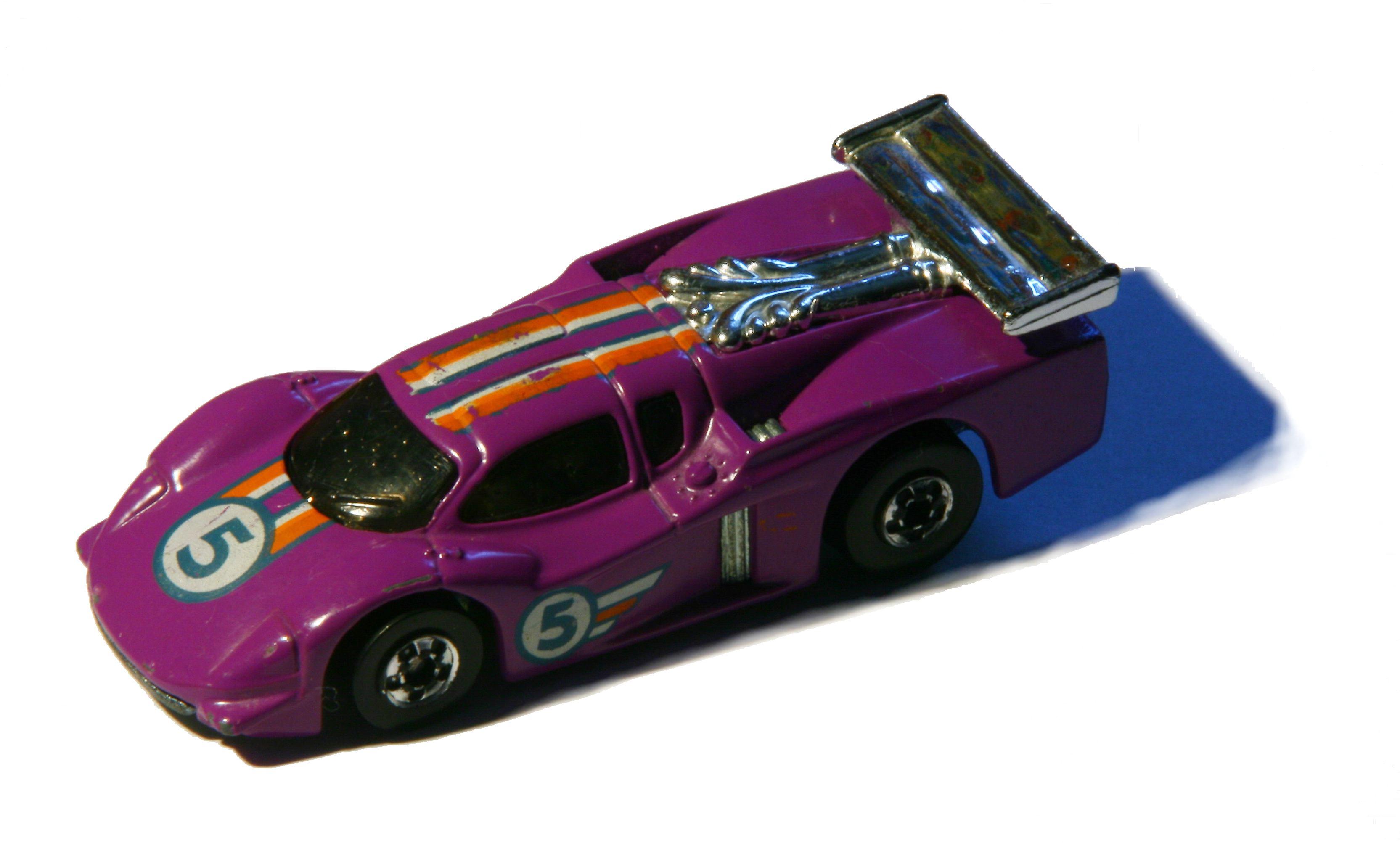 Hotwheels Modell Car